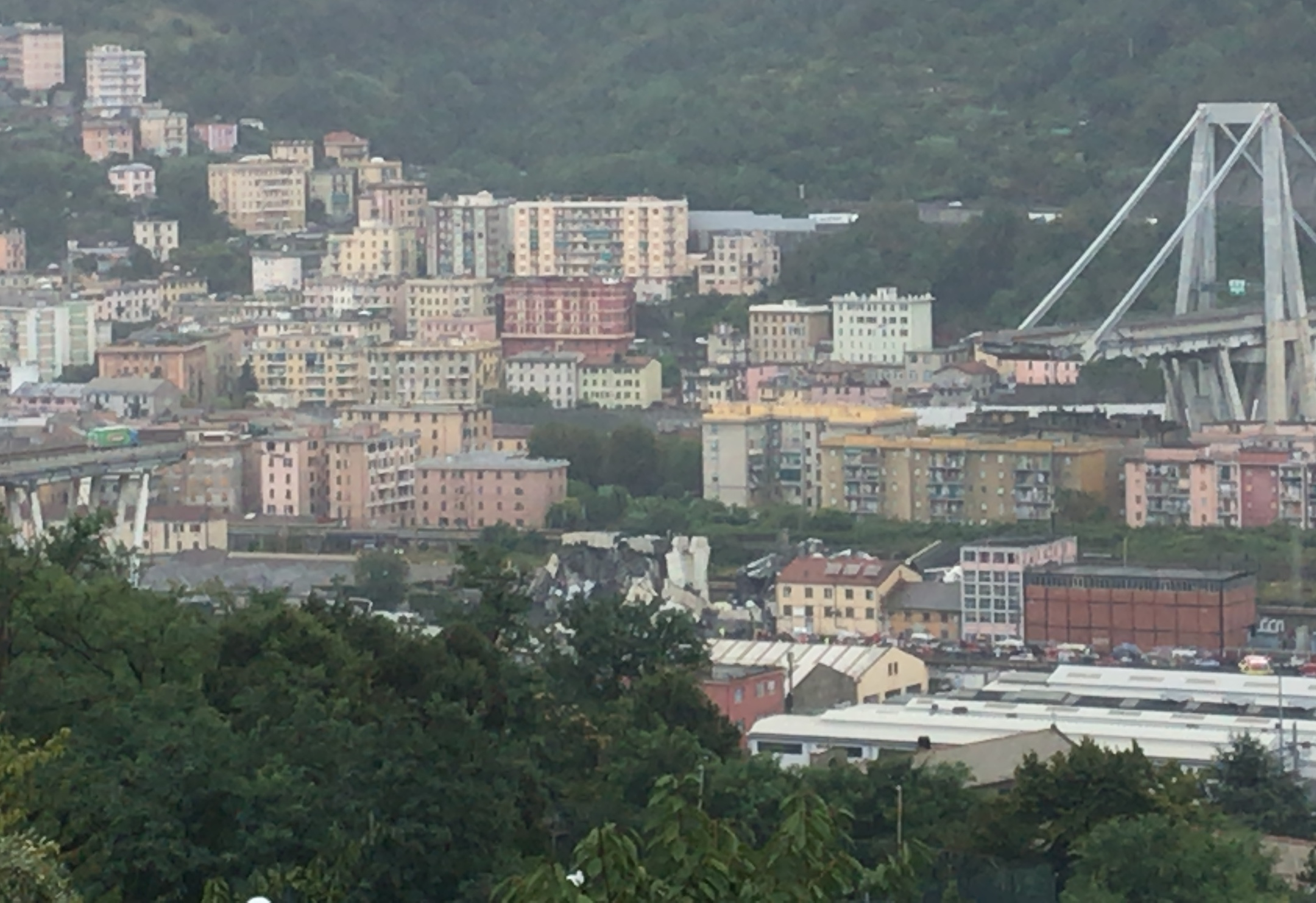 View of the gap of collapsed Morandi bridge from Coronata hills. Modern houses of Genoa in the Polcevera valley near the Turin–Genoa railway, the river and the harbour. The green hill is Belvedere, another quarter of Genoa. Shot by Salvatore Fabbrizio.